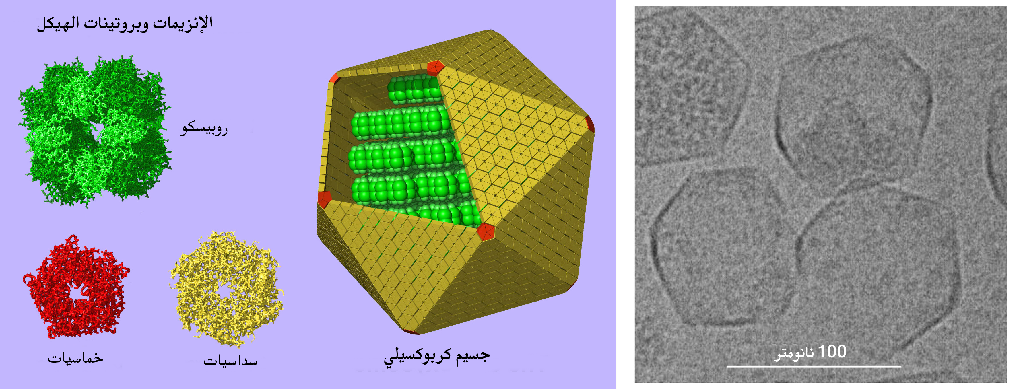 Legend: (left) Purified carboxysomes (material courtesy of S. Heinhorst and G. Cannon) as visualized by cryo-electron microscopy (courtesy of M.J. Yeager and K.A. Dryden, University of Virginia). (right) Models for the structure of the carboxysome. Current data suggest that the shell is composed of several hundred hexameric protein building blocks and 12 pentameric building blocks. The three-dimensional atomic structures of the shell proteins have been determined by X-ray crystallography. RuBisCO, the main interior enzyme is shown packed inside in a regular arrangement for simplicity, though the actual organization of the enzymes is not understood yet. The other key enzyme, carbonic anhydrase, which is present in lesser amounts, is not illustrated (image by T.O. Yeates).